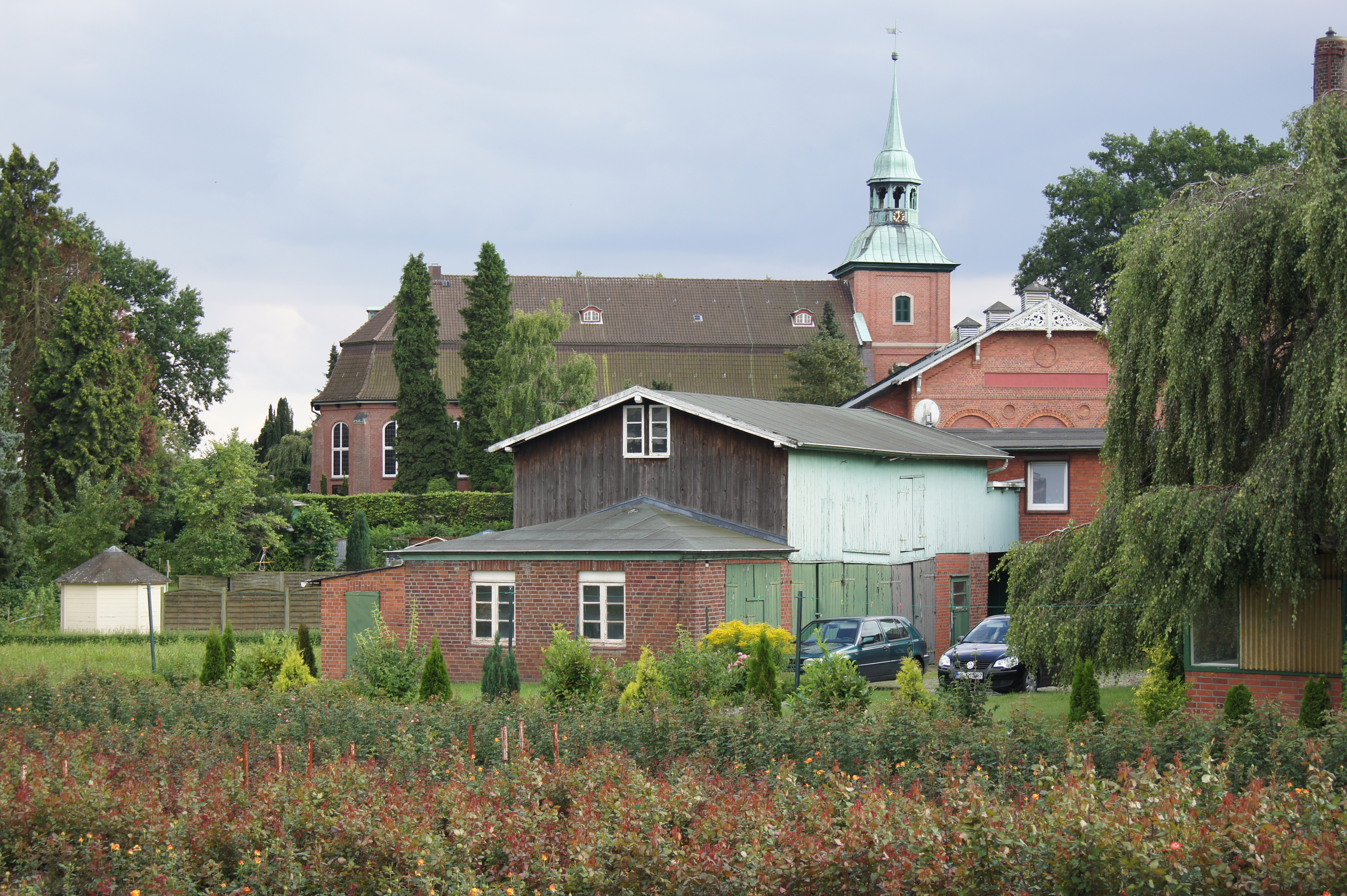 Hamburg (Ochsenwerder), Germany: Panorama avec l'église de Saint Pancras Church